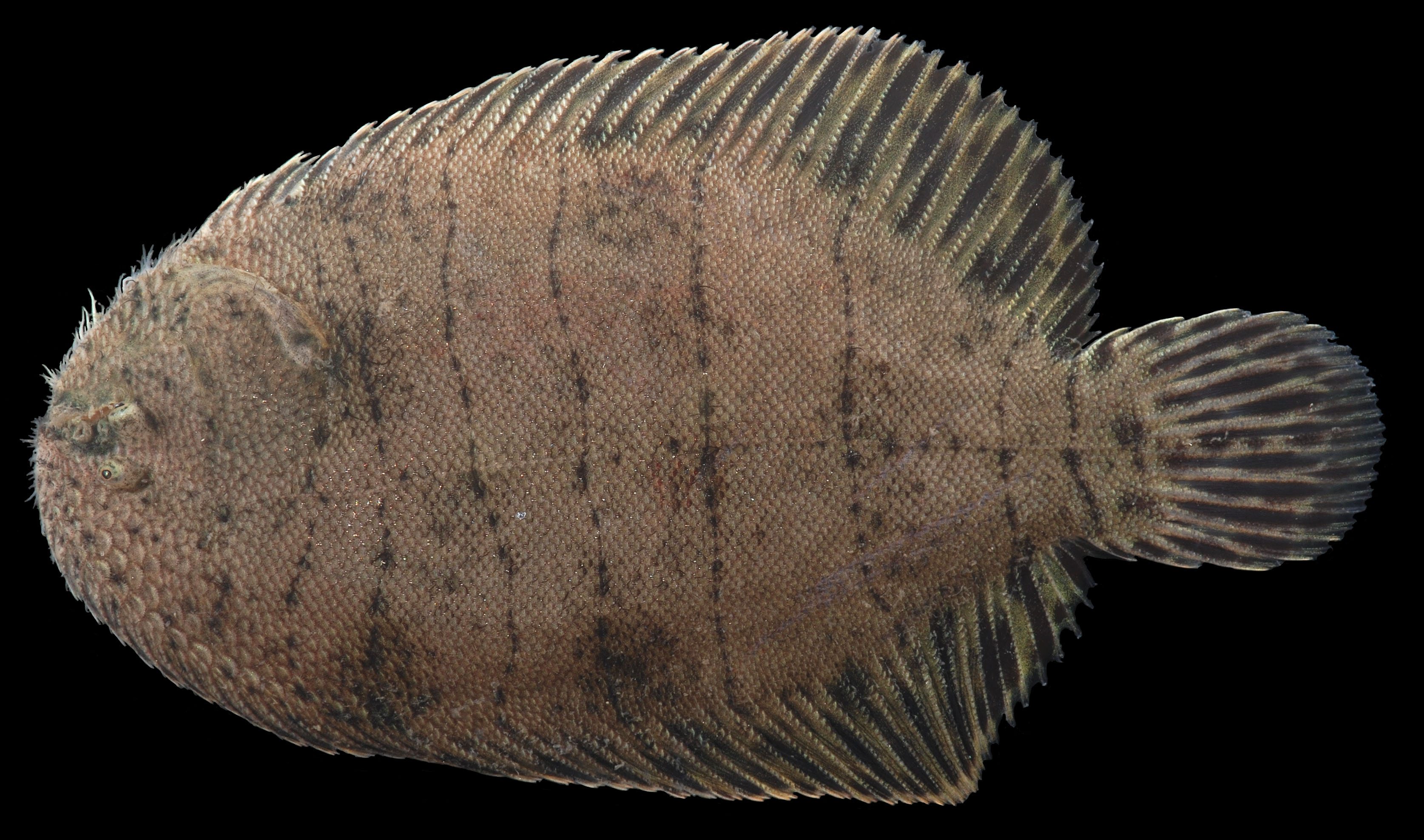 Hogchoker, Trinectes maculatus. Rhode River, Edgewater, Anne Arundel County, MD - 08/11/19. Photo by Robert Aguilar, Smithsonian Environmental Research Center.